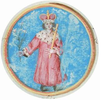 Coat of Arms of Darsūniškis city in 1791